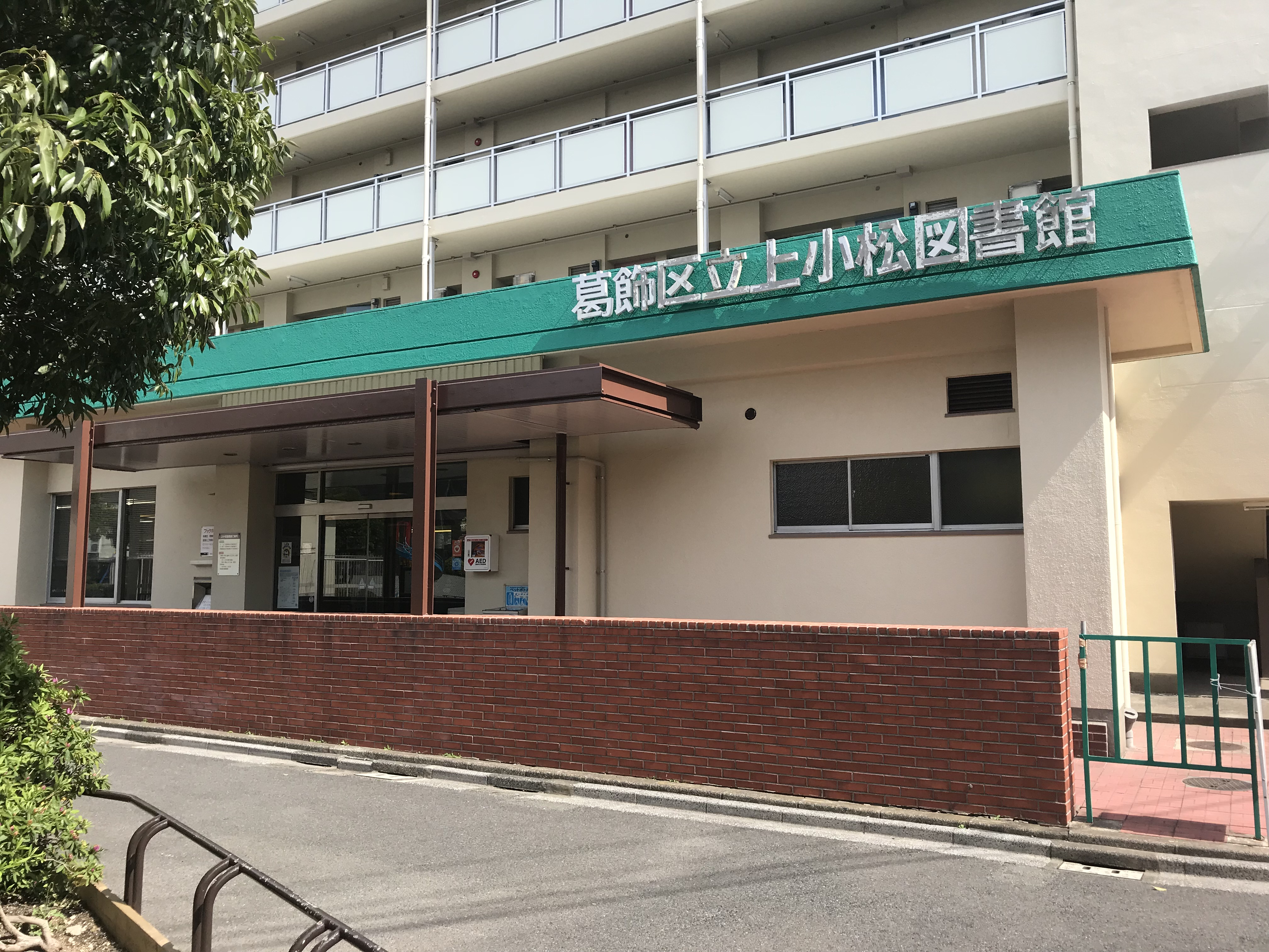 Kamikomatsu Library from KATSUSHIKA CITY LIBRARIES